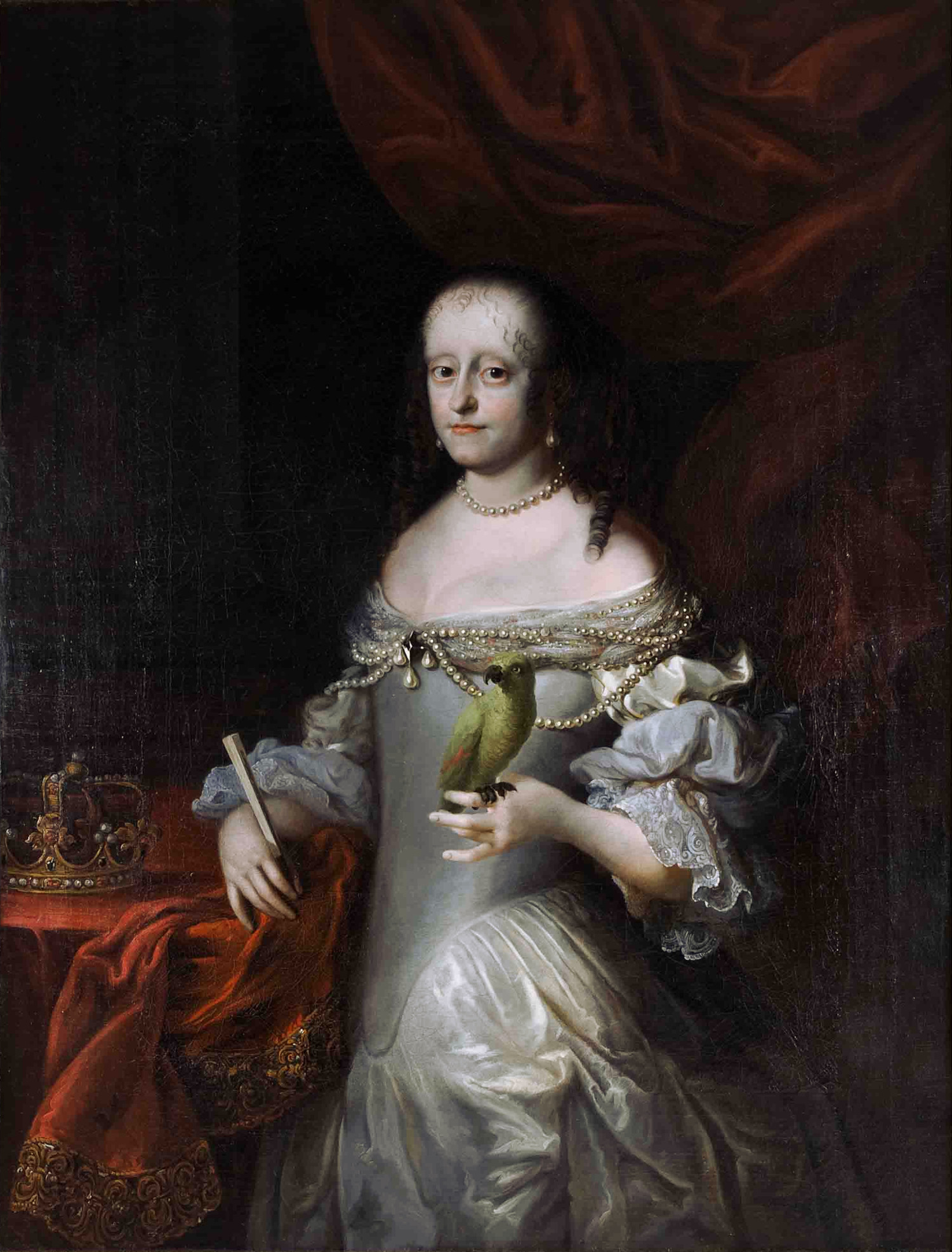 Queen Sophie Amalie (1628-1685)